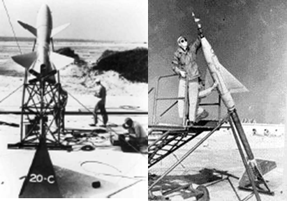 NASA Wallops Flight Facility Historic Rockets